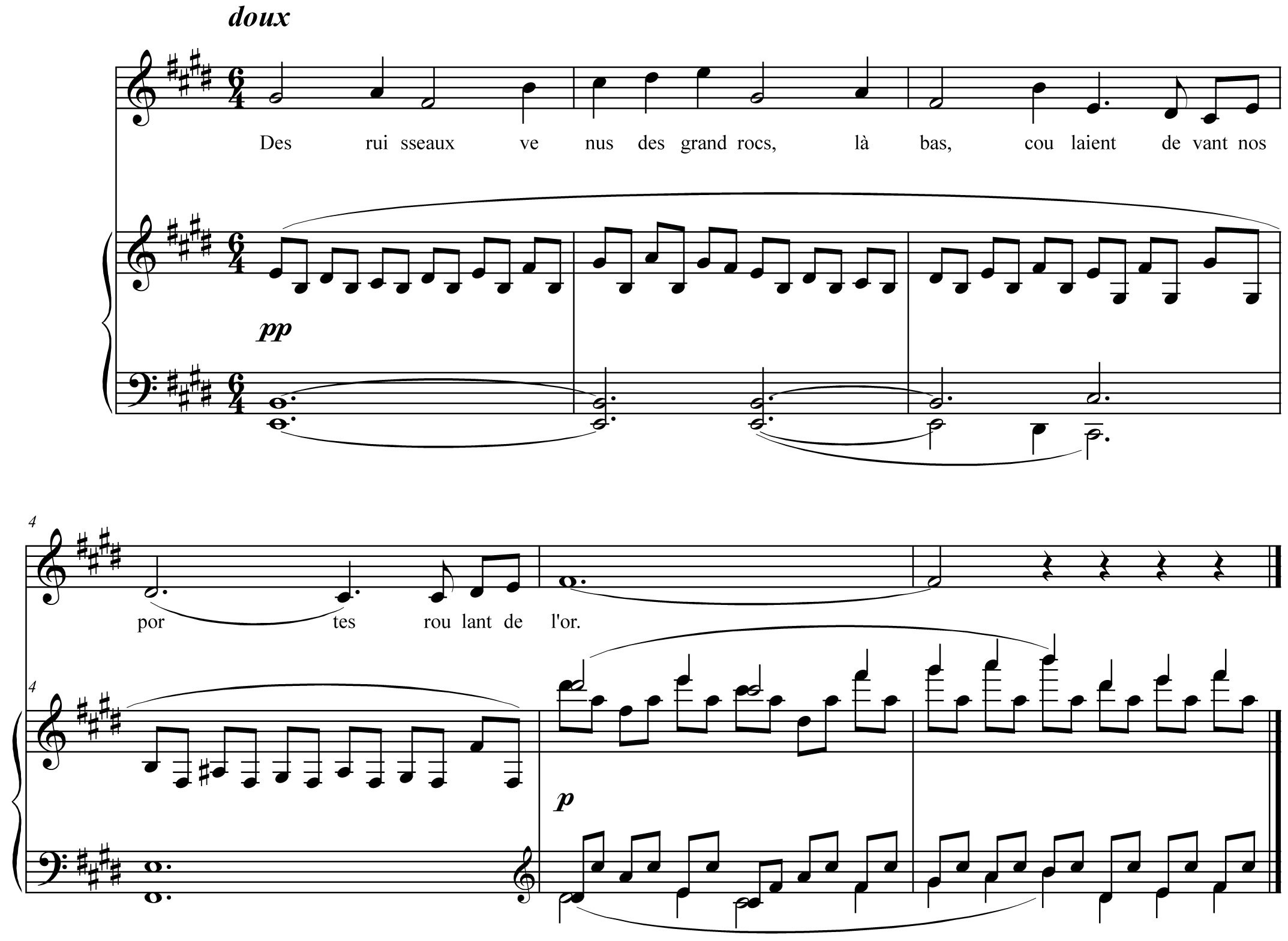 Excerpt from the sheet music of the opera Messidor by Alfred Bruneau.